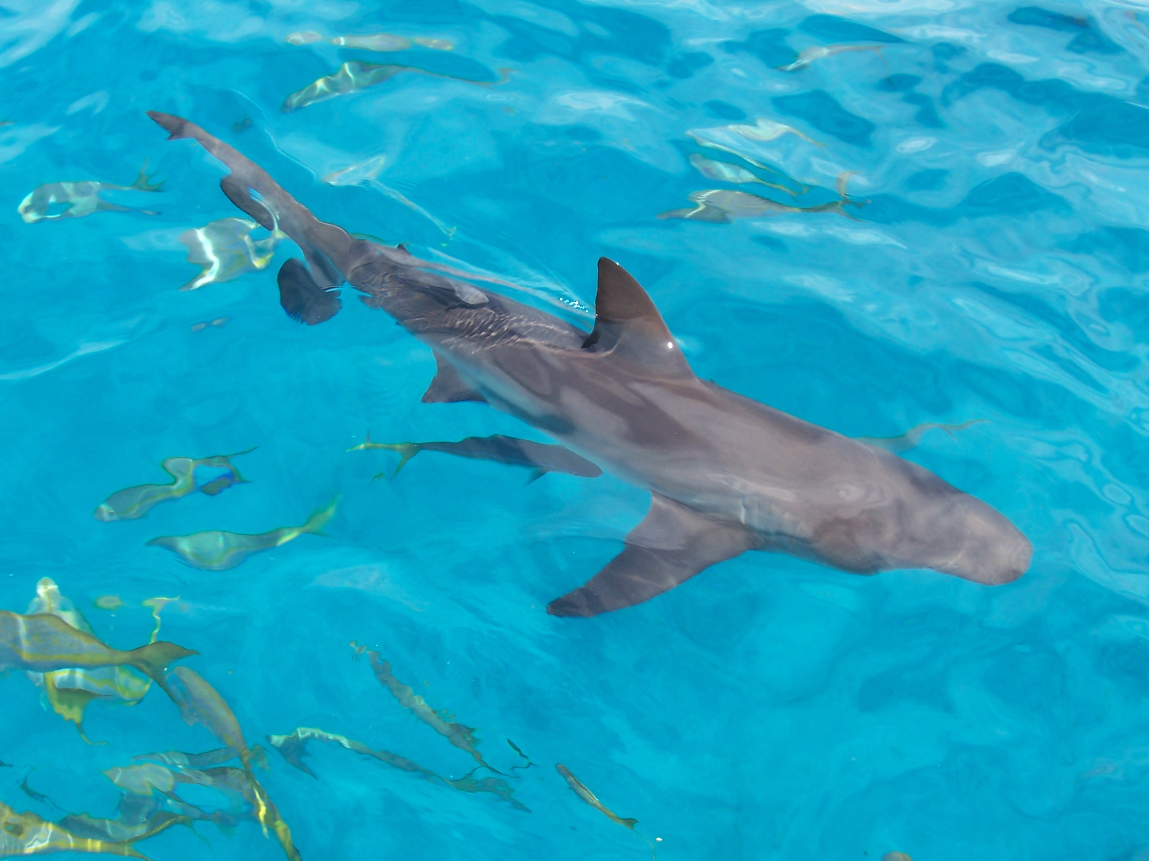 Caribbean reef shark